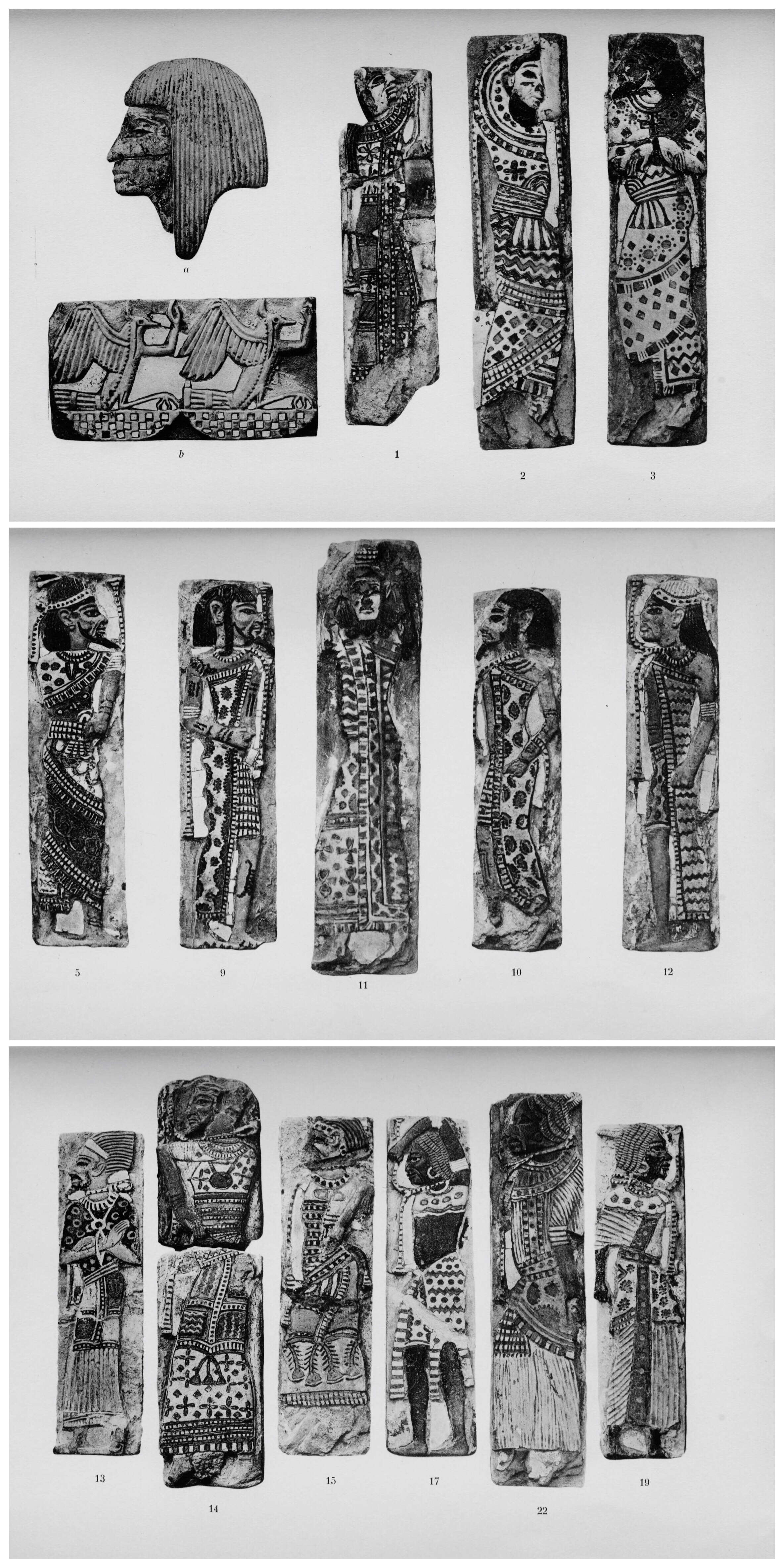 Ramesses III prisoner tiles from Medinet Habu, catalogued in 1911 by Georges Daressy Georges Émile Jules Daressy, 1911, Plaquettes émaillées de Medinet-Habou, Annales du Service des Antiquités de l'Égypte, volume XI, 49-63 and Pls. I-IV.